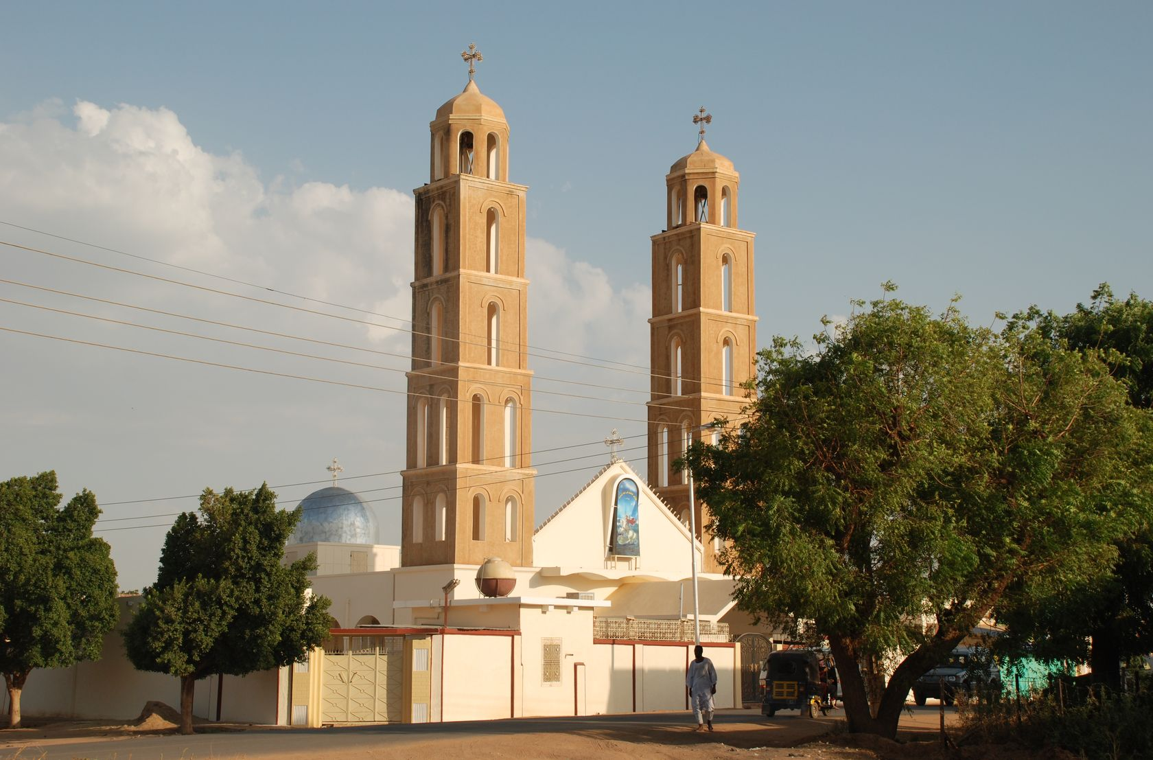 Coptic church and bell towers in Kosti, Sudan.